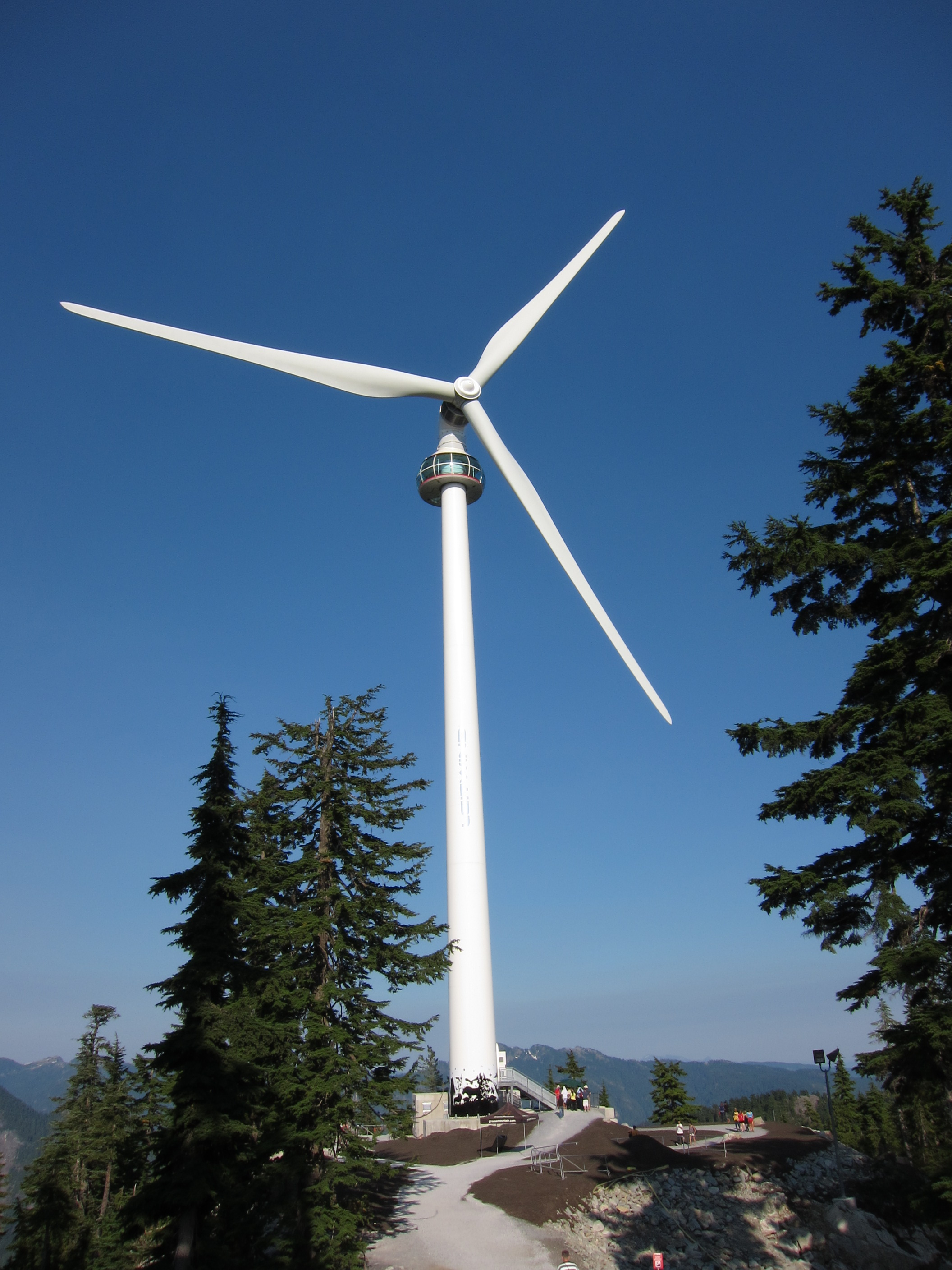 Nature & Parks